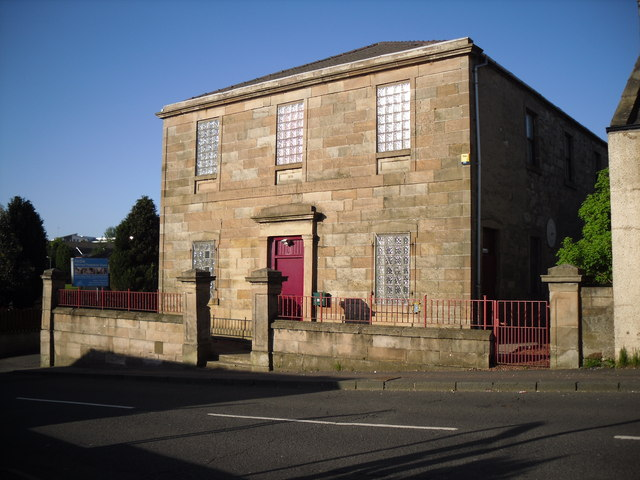 Airdrie Reformed Presbyterian Church The year 1838 can be seen below the top middle window.